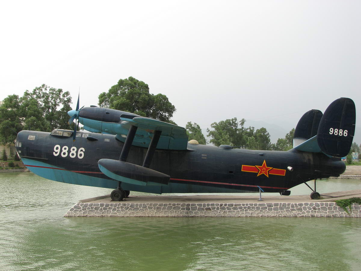 China Aviation Museum, Beriev Be-6.